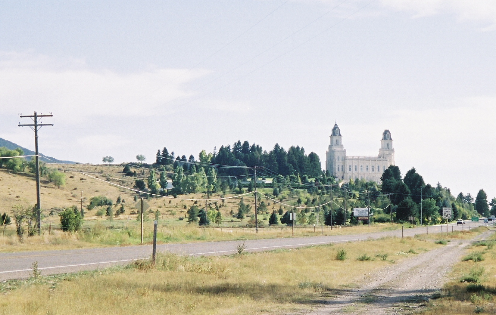 Manti Utah Temple of The Church of Jesus Christ of Latter-day Saints, from a distance: U.S. Route 89.